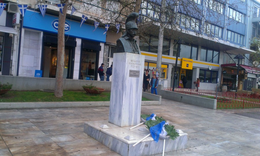 kolokotronis